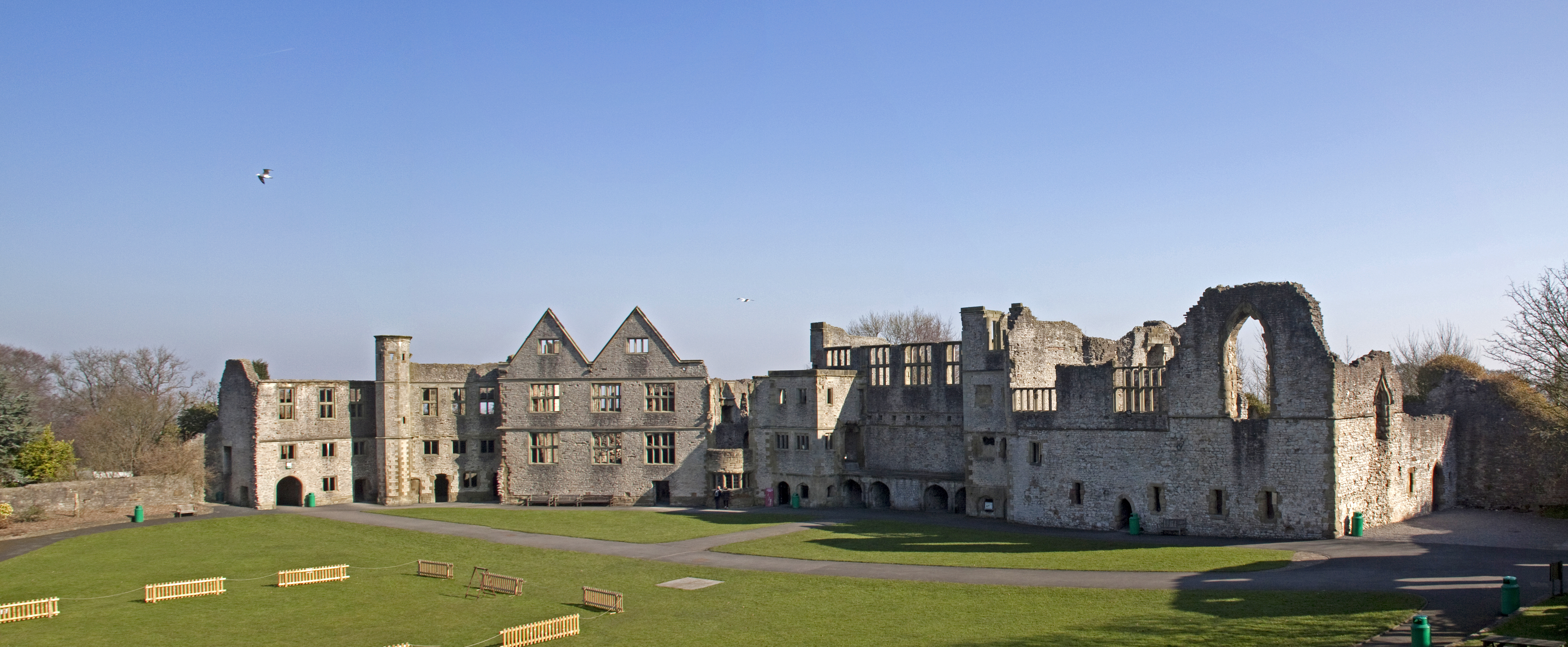 The original castle was built during the 11th Century, but the ruins that remain today were begun in the 13th Century. The destruction of part of the walls and the keep occured during the Civil war in 1646 when Cromwell's forces captured the castle.